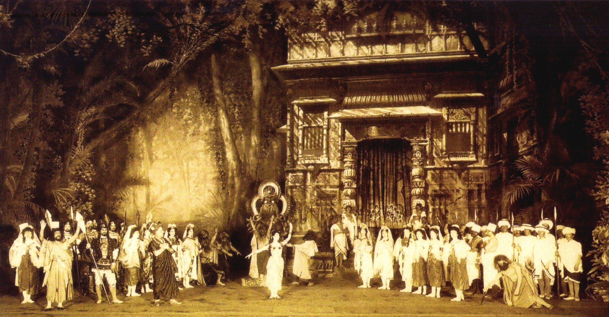 Photo of the stage of the Imperial Mariinsky Theatre dressed in designer Adolf Kvapp's décor for Act I/Scene 1 of the choreographer Marius Petipa (1818-1910) & the composer Ludwig Minkus's (1828-1917) ballet "La Bayadère". In the center can be seen the Mathilde Kschessinskaya (1871-1970) in the principal role of Nikiya.